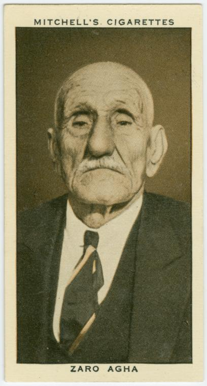 Zaro Agha.